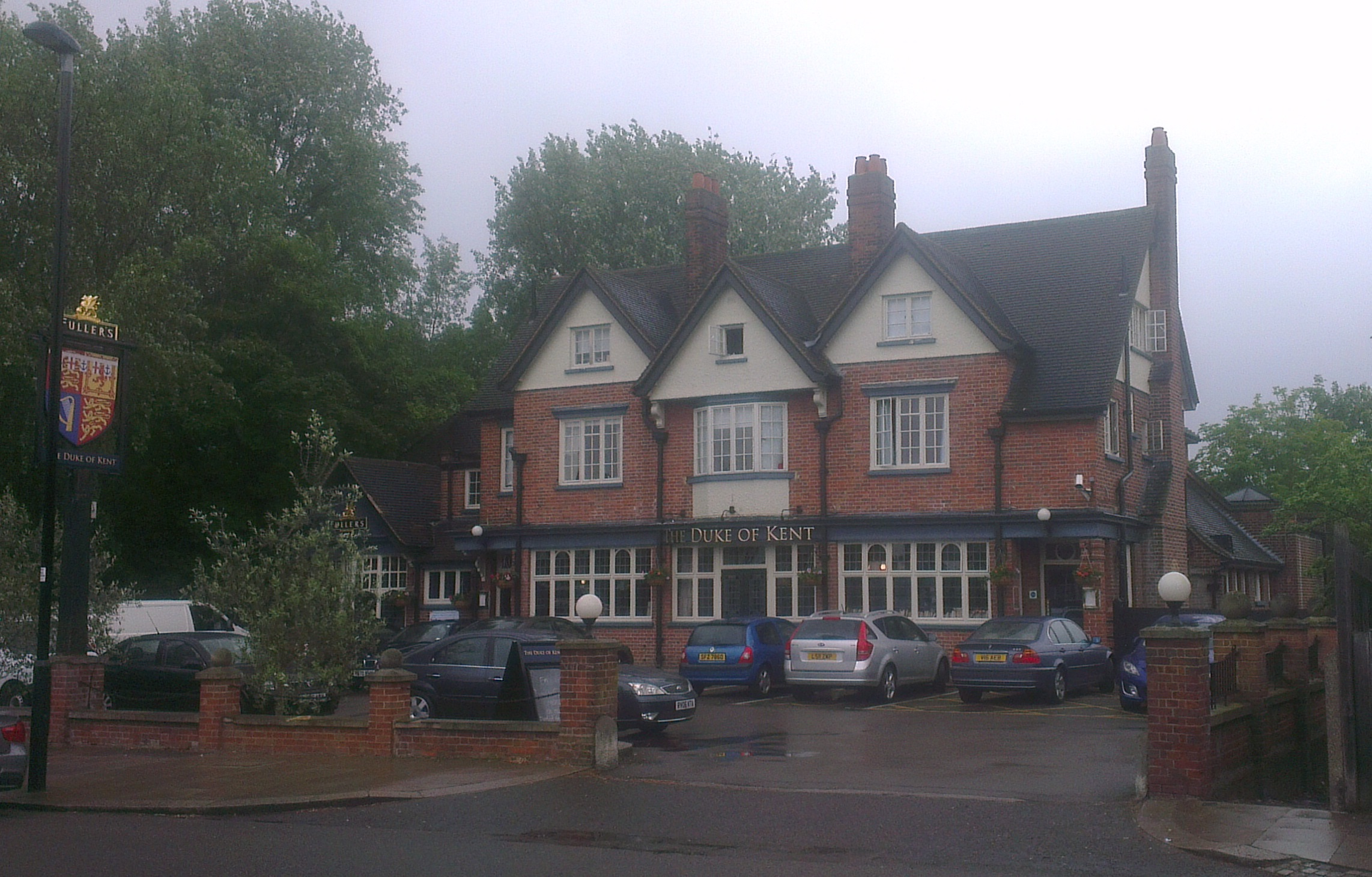 Outside of Duke of Kent pub Ealing